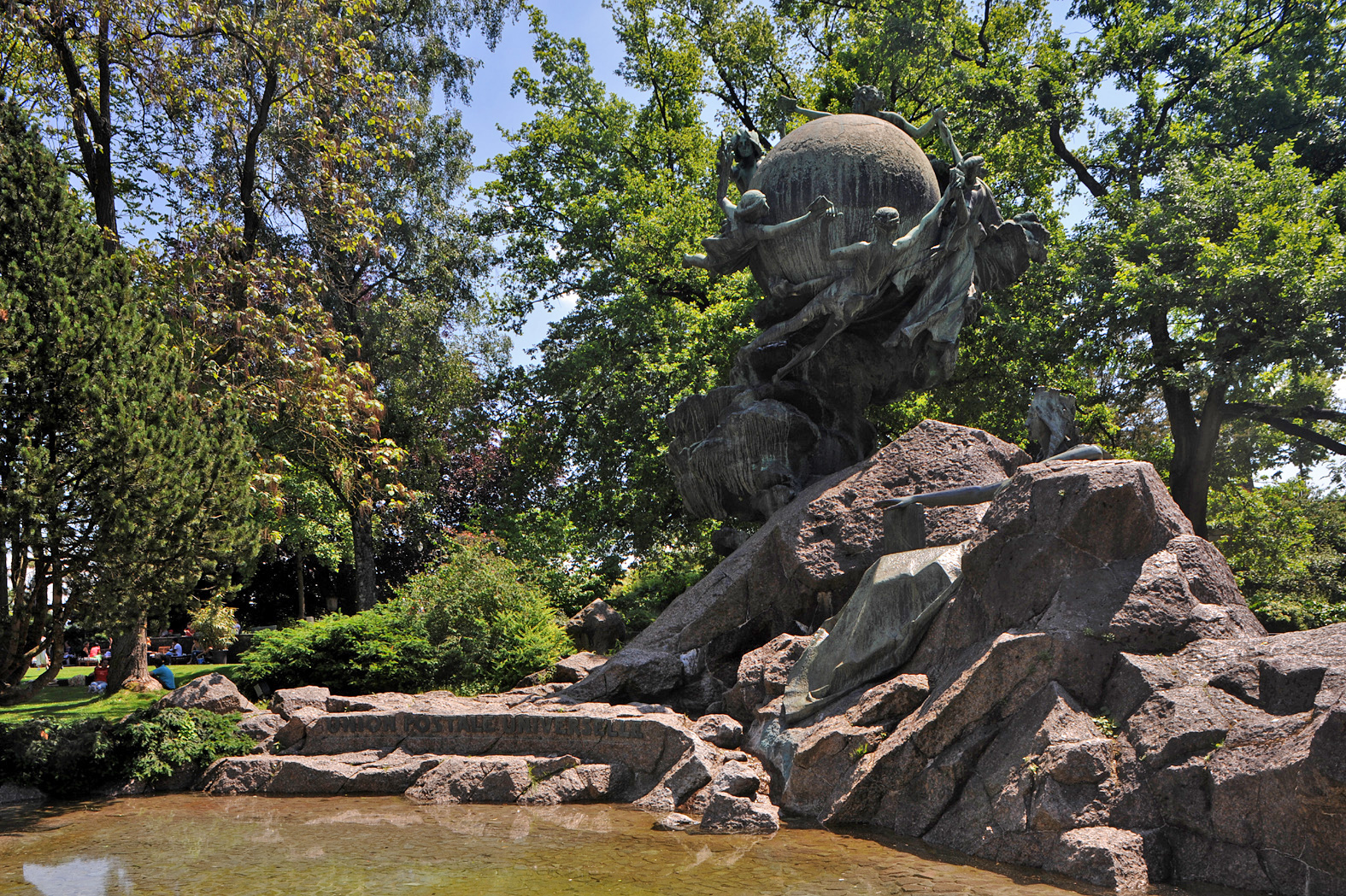 Public park at the Kleine Schanze, monument of the Universal Postal Union from René de Saint-Marceaux; Bern, Switzerland.